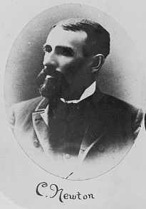 Rep. Cherubusco Newton, 5th District of Louisiana